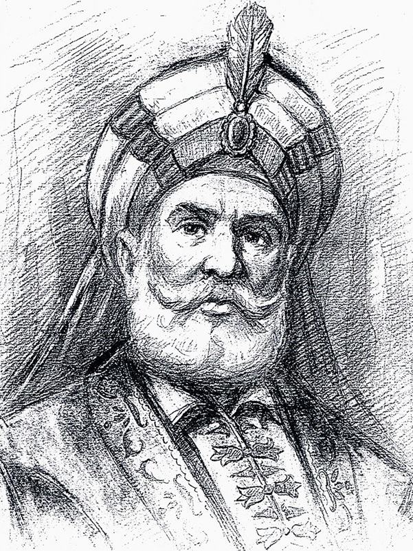 Daher el-Omar portrait painted by Ziad Zaydany in 1990